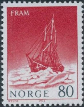 Norwegian 1972 stamp showing polar vessel Fram, based on painting by Fridtjof Nansen